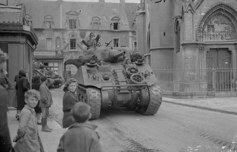 The British Army in the Normandy Campaign 1944 Sherman tanks driving through Douvres-la-Délivrande, 8 June 1944.